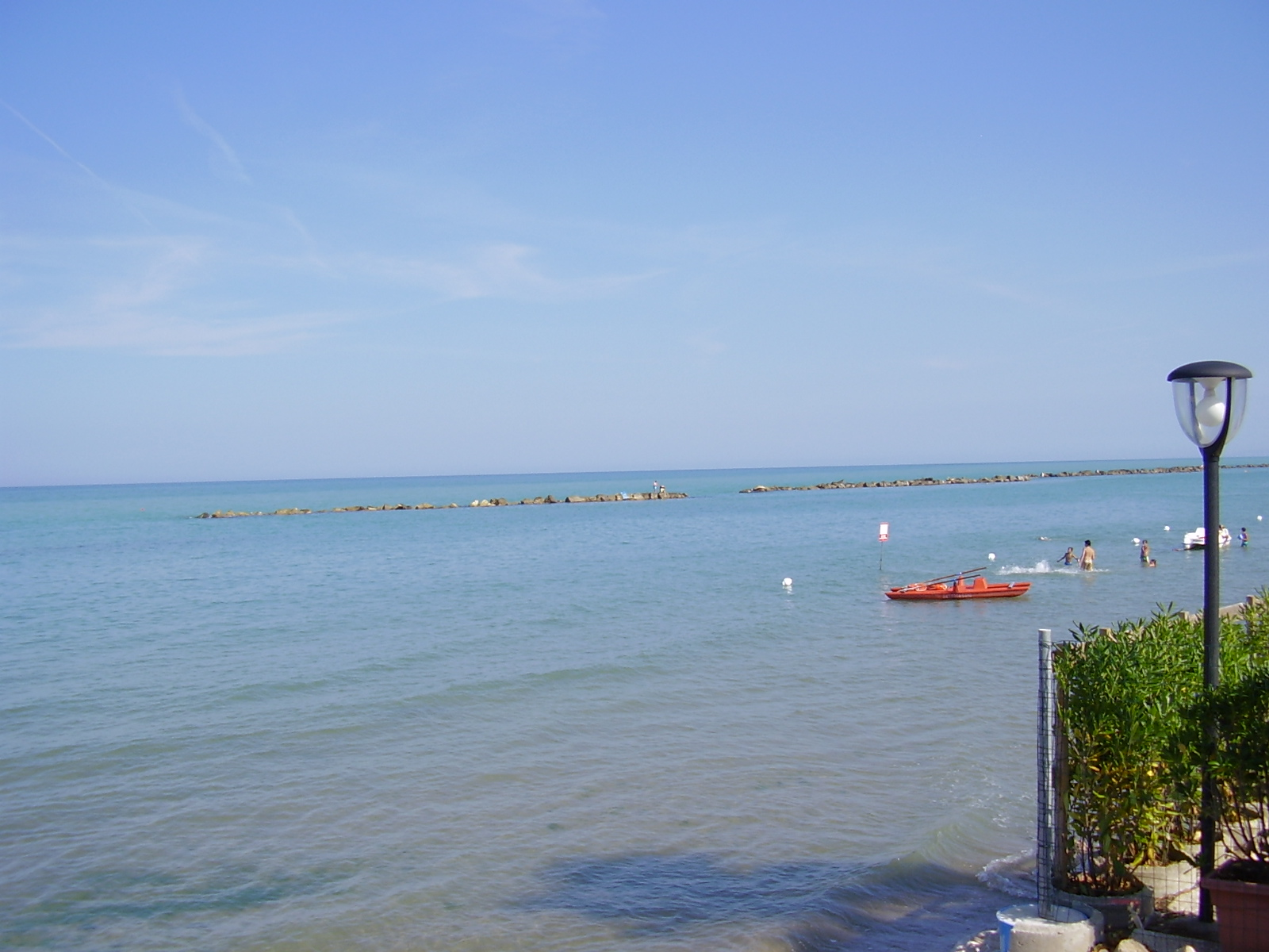 Pláž